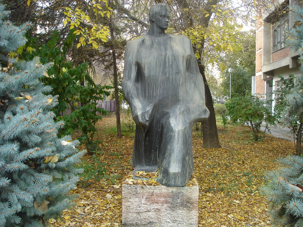 Monument of Rade Jovcevski - Korcagin